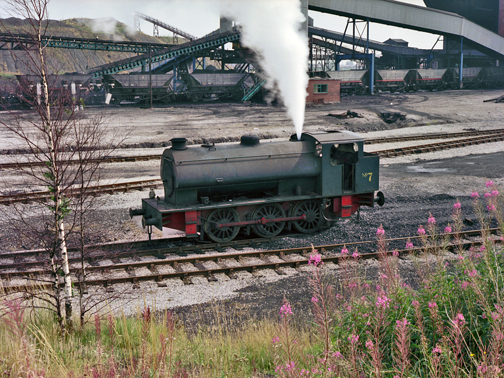 National Coal Board Hunslet Engine Company Limited 18" x 26" 0-6-0ST 'Austerity' class locomotive number 63.000.326 (works number 3776 of 1952) stands near the locomotive shed at Bickershaw Colliery, Leigh. Thursday 18th August 1983